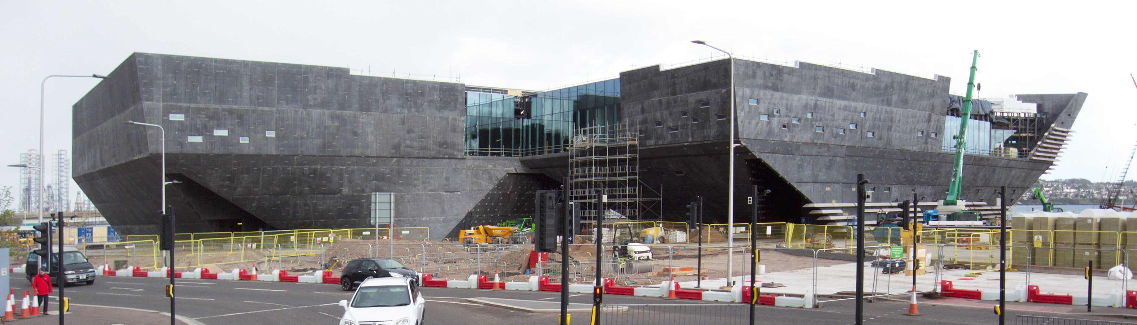 V&A Dundee under construction (composite image; version showing join points can be found via image upload history)